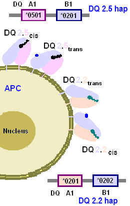 Image shows the result of isoform pairing with the DQ2.2/DQ2.5 phenotype. The haplotypes, top and bottom are inherited one from each parent (gender is unimportant). The genes produce isoform polypeptides that are free to pair on the surface. The density of DQ2.5 and DQ2.2 increase because of both cis and trans-pairing of DQA1*0501 with DQB1*0201 and DQB1*0202. The two B1*02 genes differ outside of the functional regions, and are functionally equivalent.